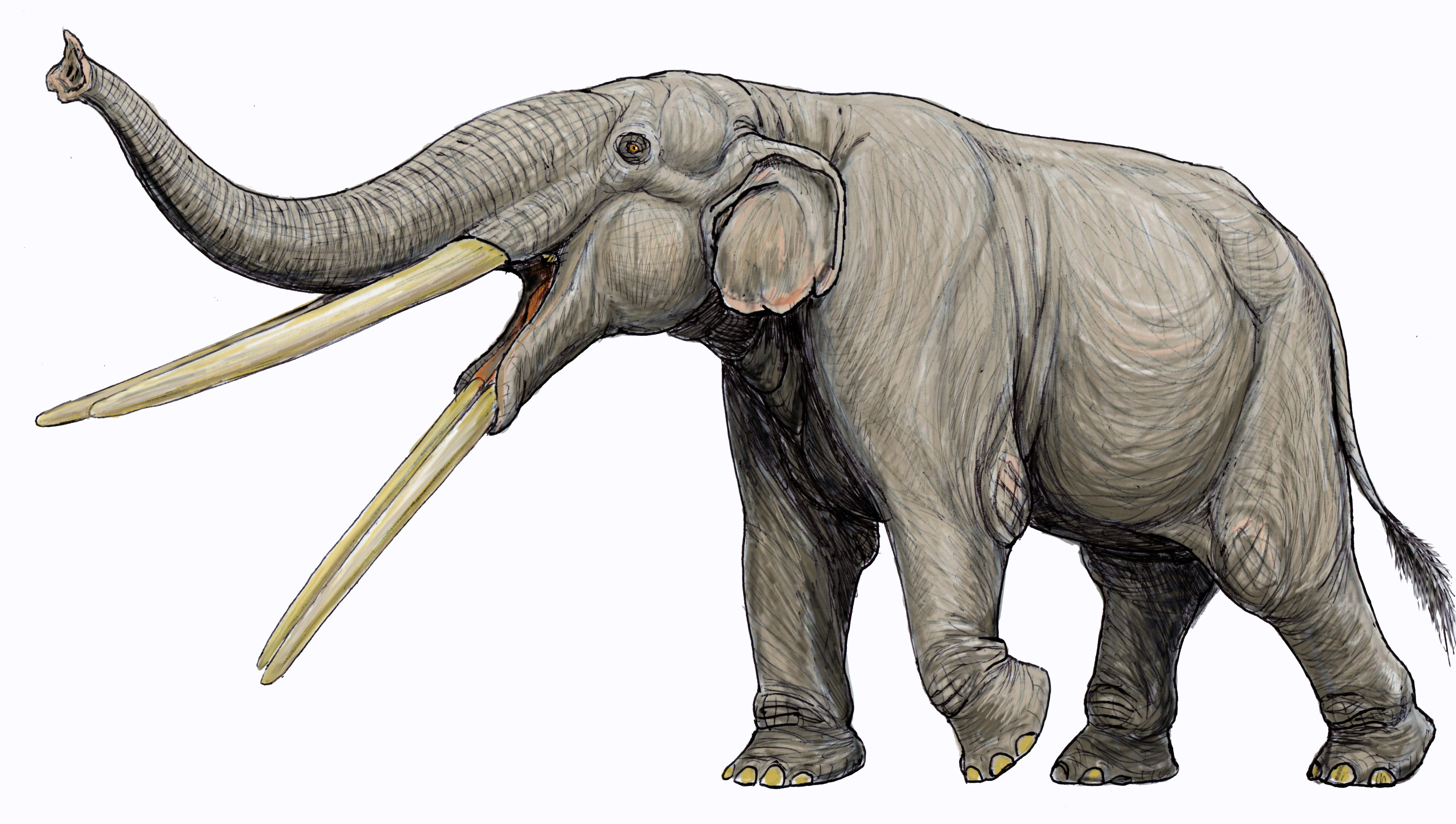 Stegotetrabelodon syrticus, primitive elephant of late Miocene Africa